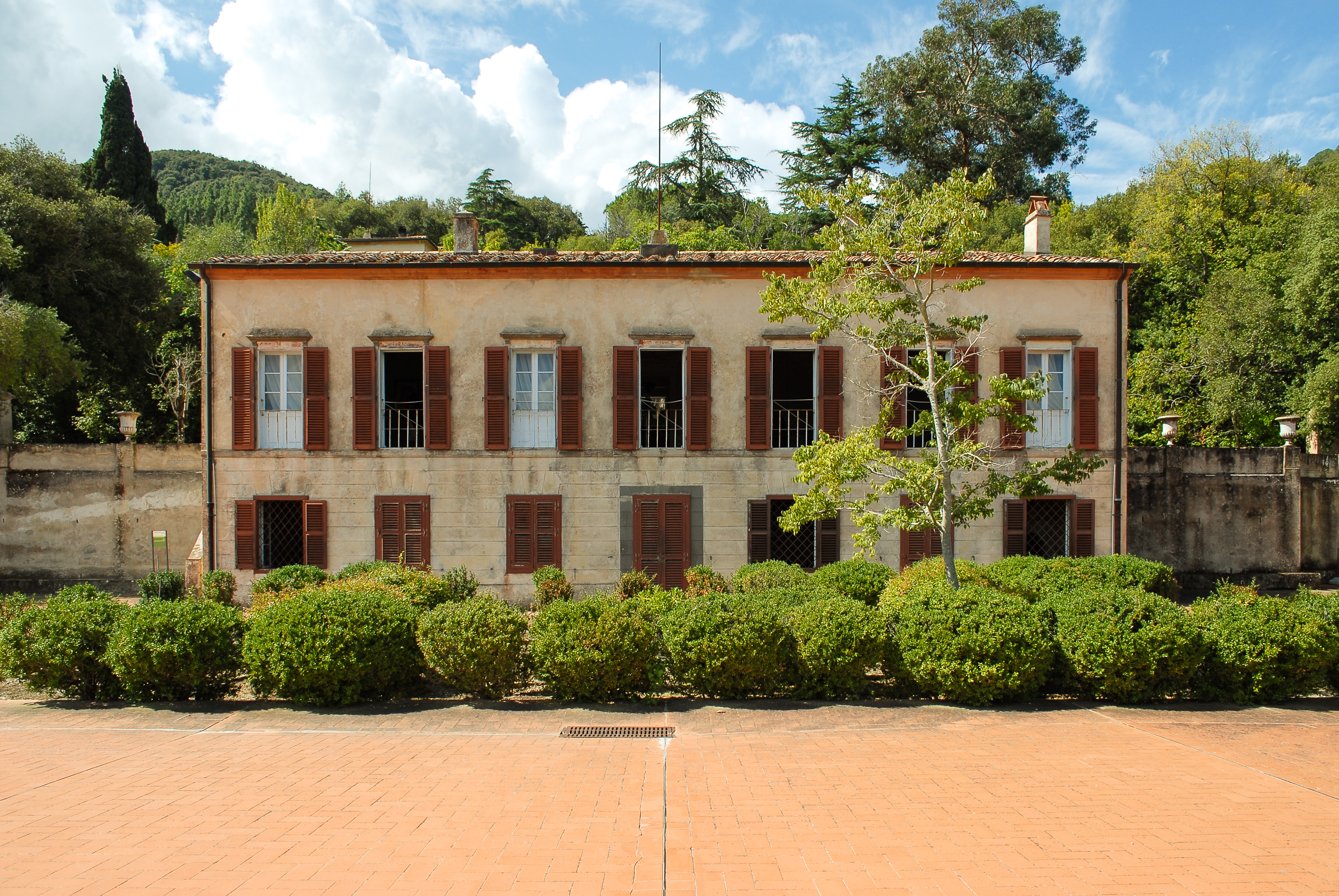 Villa di San Martino on Elba Island